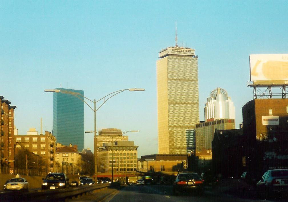 Massachusetts Turnpike eastbound between the Brookline Avenue and Charlesgate underpasses